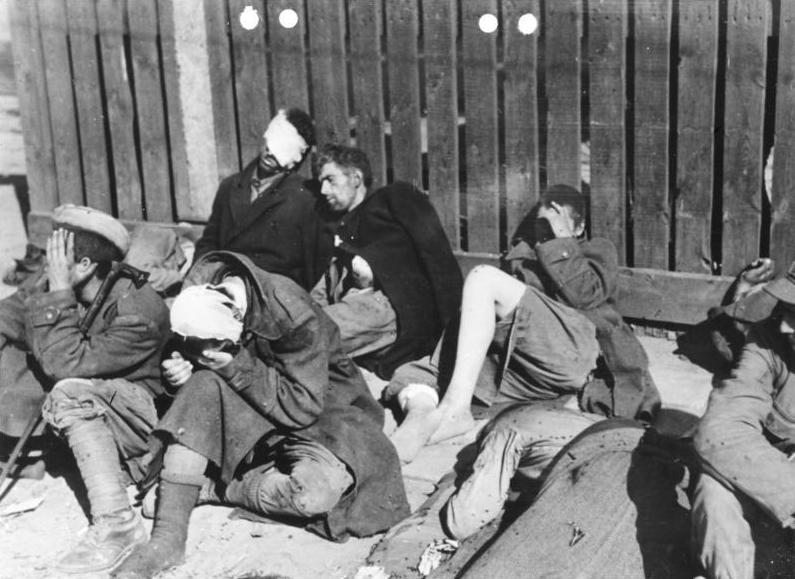 Warsaw Uprising: Supposedly after taking the Czerniakow district. Wounded AK and Berling Army soldiers as POWs